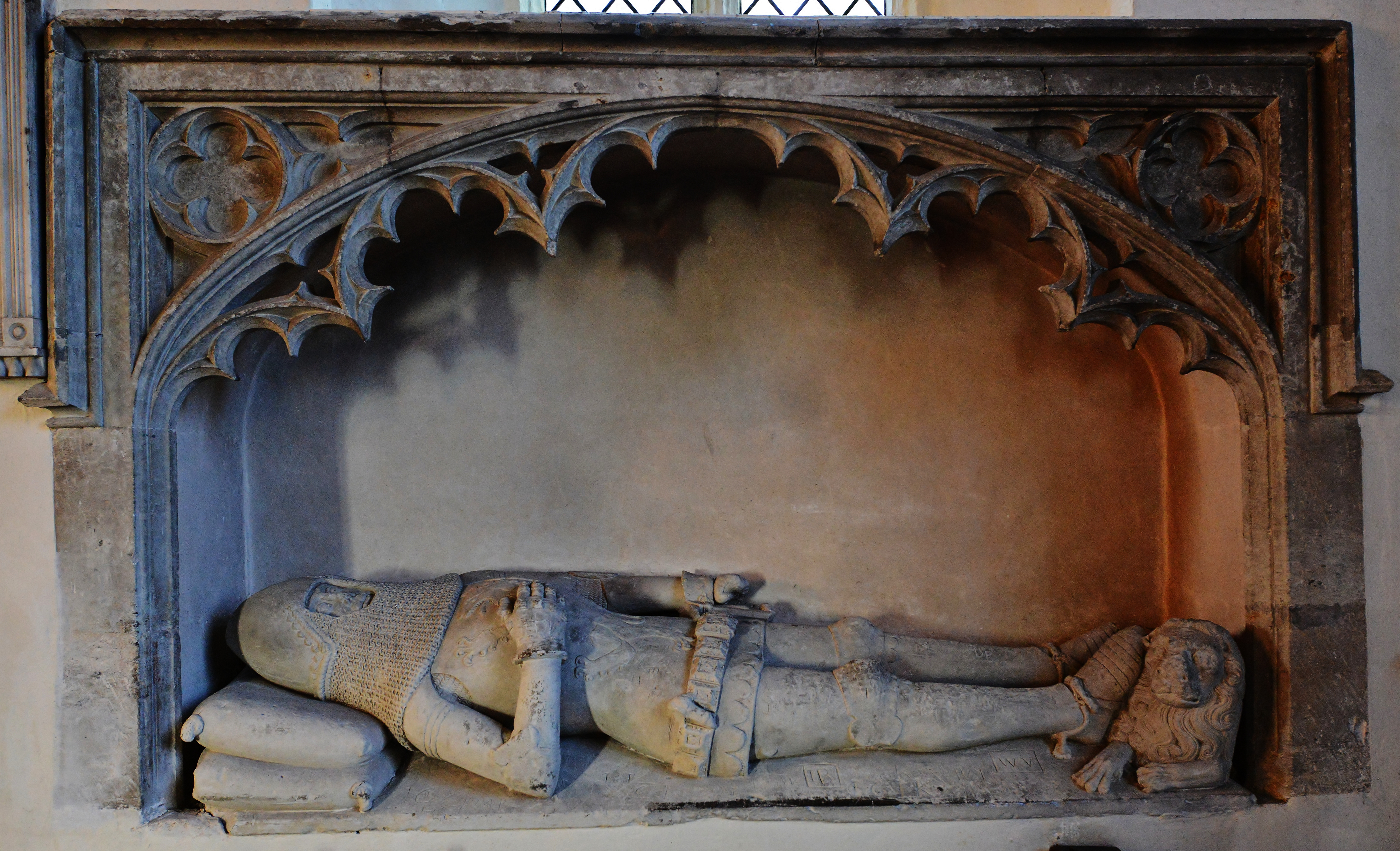 Photo by Michael Garlick